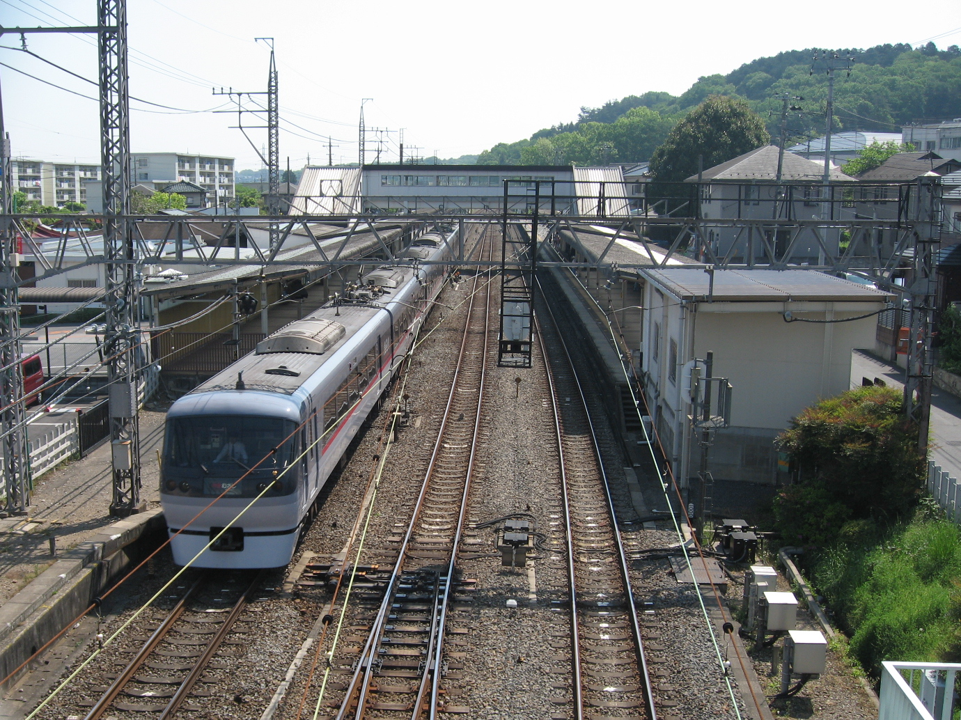 Overview of Bushi Station on the Seibu Ikebukuro Line from a nearby overpass, looking east